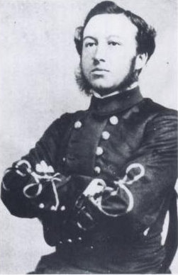 Lieutenant Frances H. Cameron in one of the few examples of a Confederate States Marine Corps Uniform. c. 1864